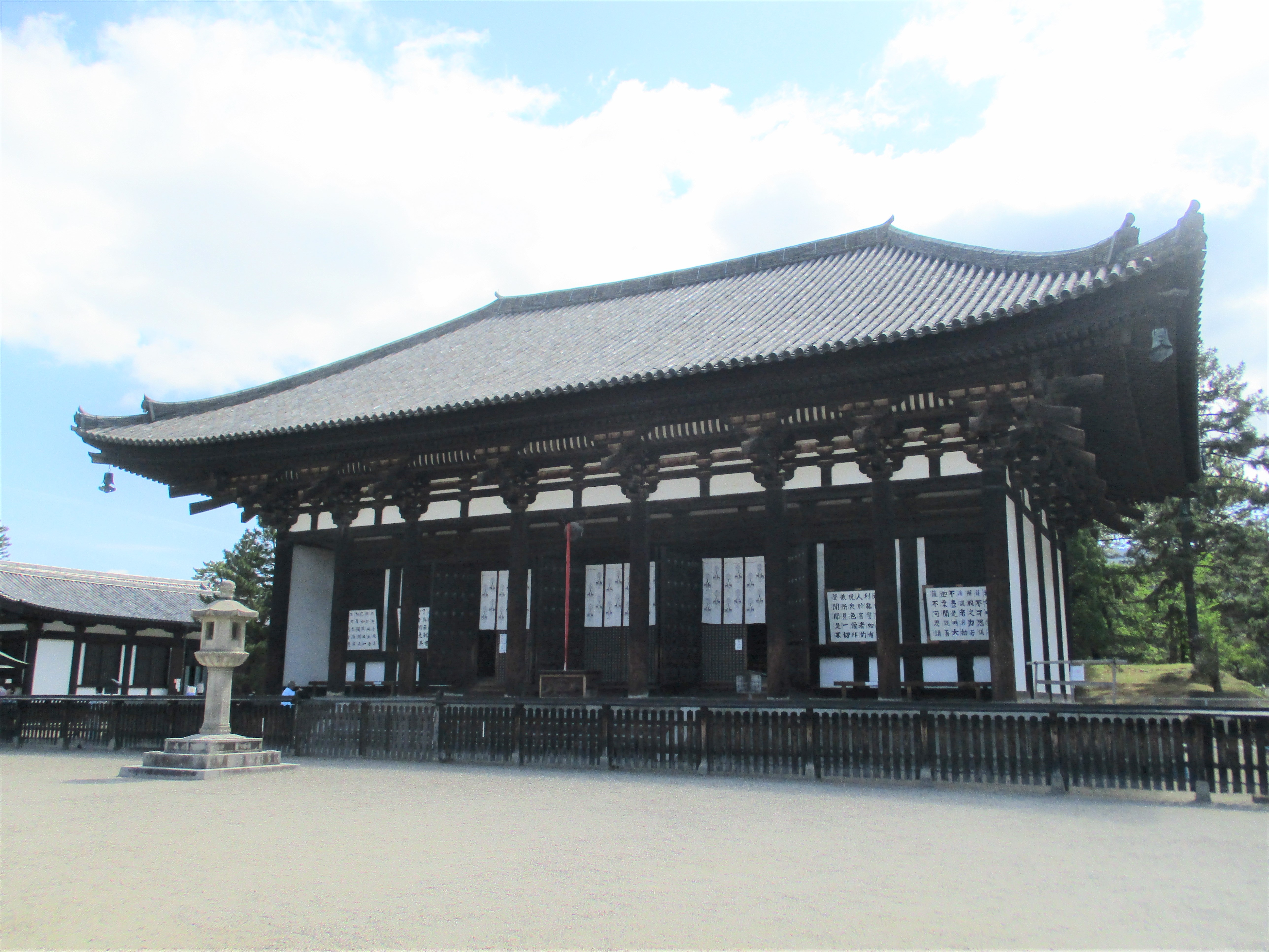 Kofukuji Tokondo, June 3rd 2019, Nara.